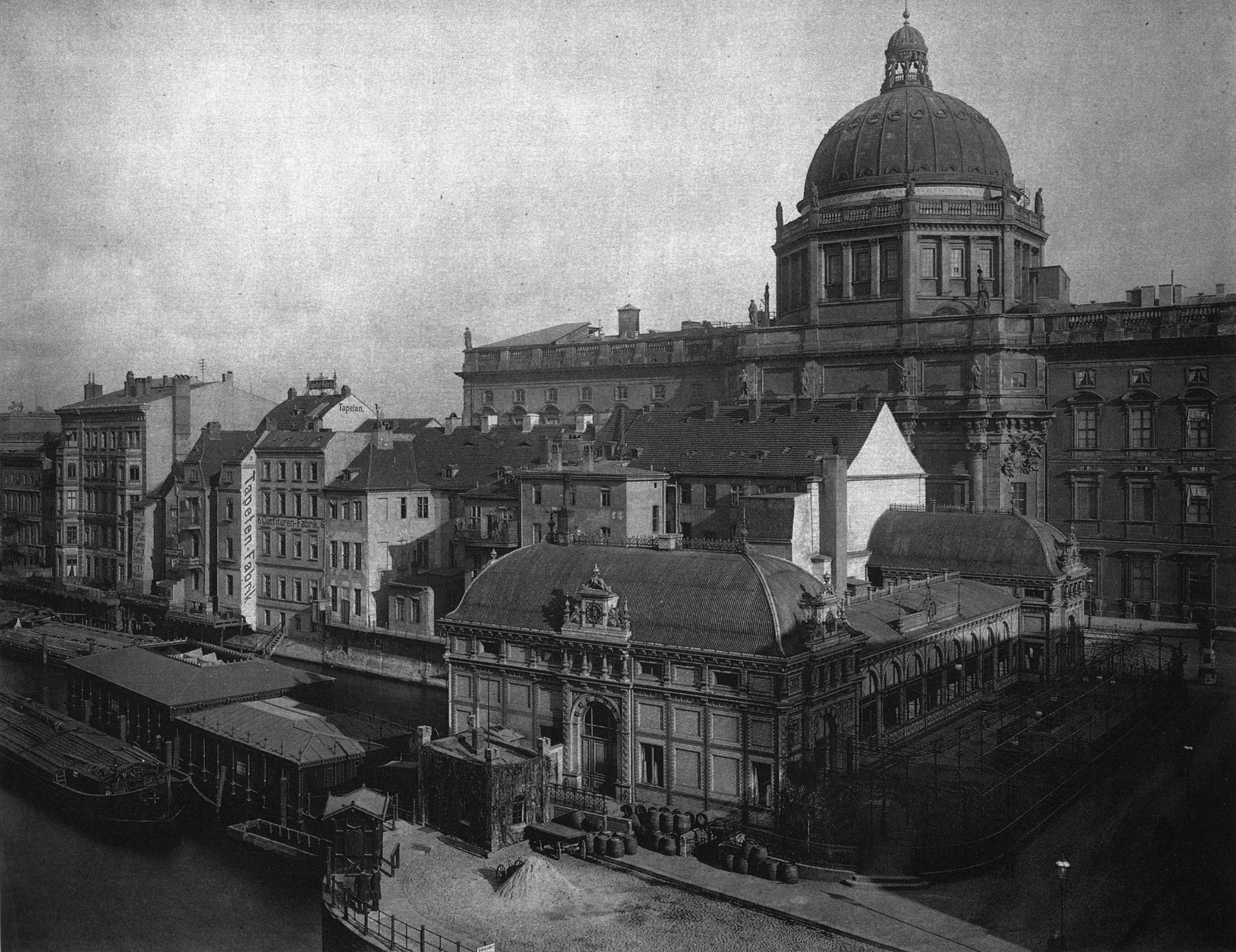 The buildings of the Schloßfreiheit in front of the Berlin City Palace. In the lower right is the Café Helms.